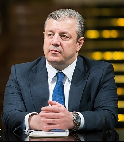 Iranian First Vice President Eshaq Jahangiri meeting with Georgian Prime Minister Giorgi Kvirikashvili